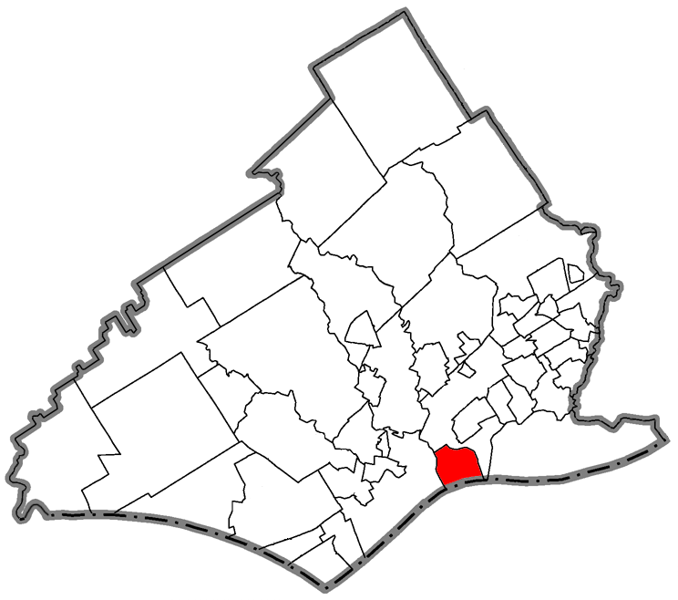 Showing the location within Delaware County, Pennsylvania.